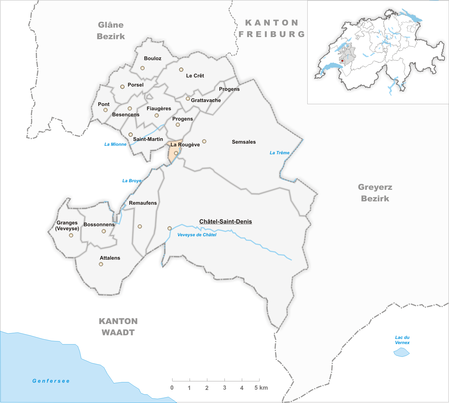 Municipality La Rougève Artist: Tschubby